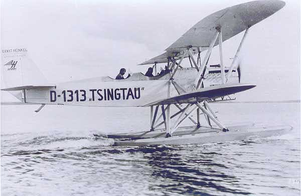 Heinkel HD-24 german seaplane. The plane was used by Gunther Plüschow (1886-1931) on his south america expeditions 1927-1931. The plane was called "D-1313 TSINGTAU". The expedition explored Tierra del Fuego and Patagonia. Gunther Plüschow was a german aviator, author and documentary film producer